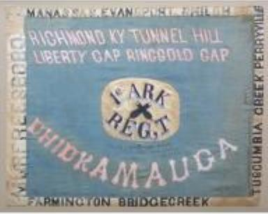 Flag, 1st Arkansas Volunteer Infantry, Hardee Pattern